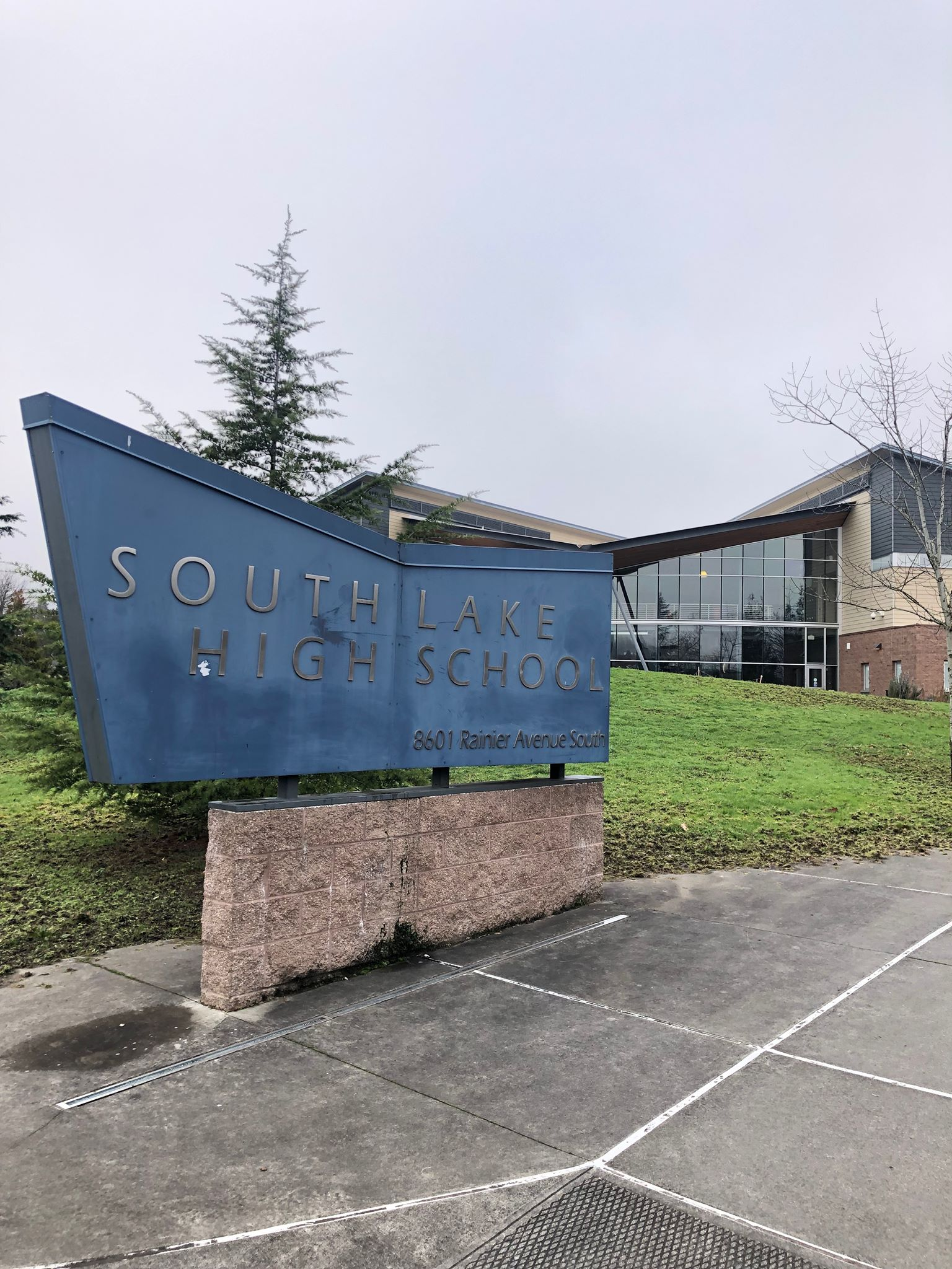 South Lake High School Signage and Building